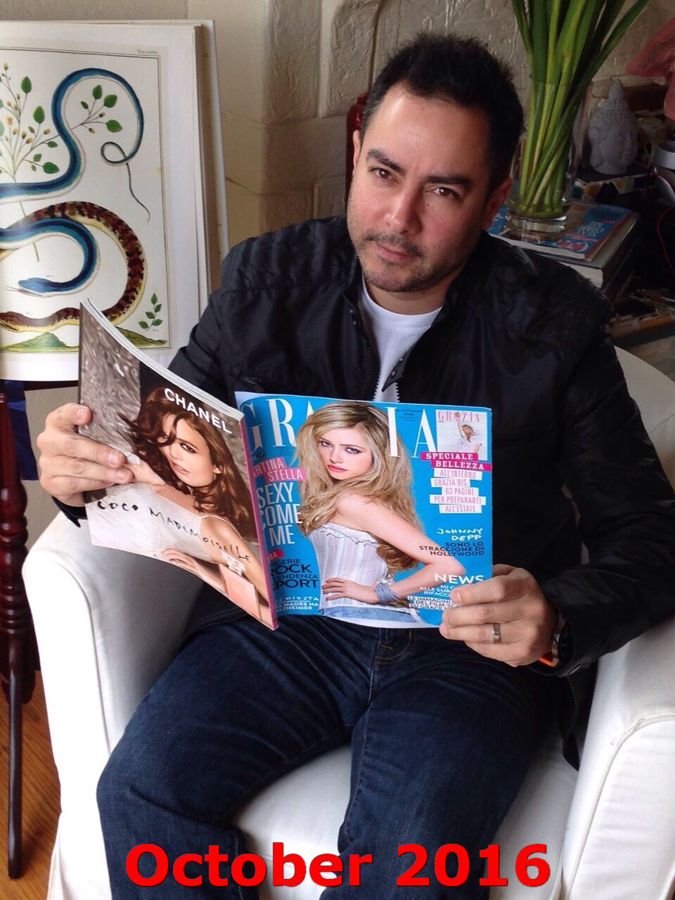 Jaime Aymerich calendario october 2016